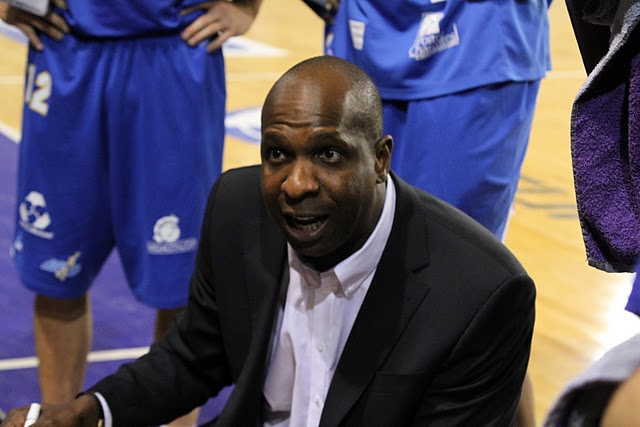 Basketball coach Ruddy Nelhomme